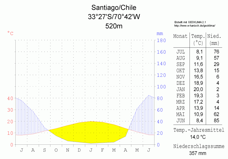 climate chart in the format by Walther and Lieth, metric, °Celsisus and millimeters, made with Geoklima 2.1